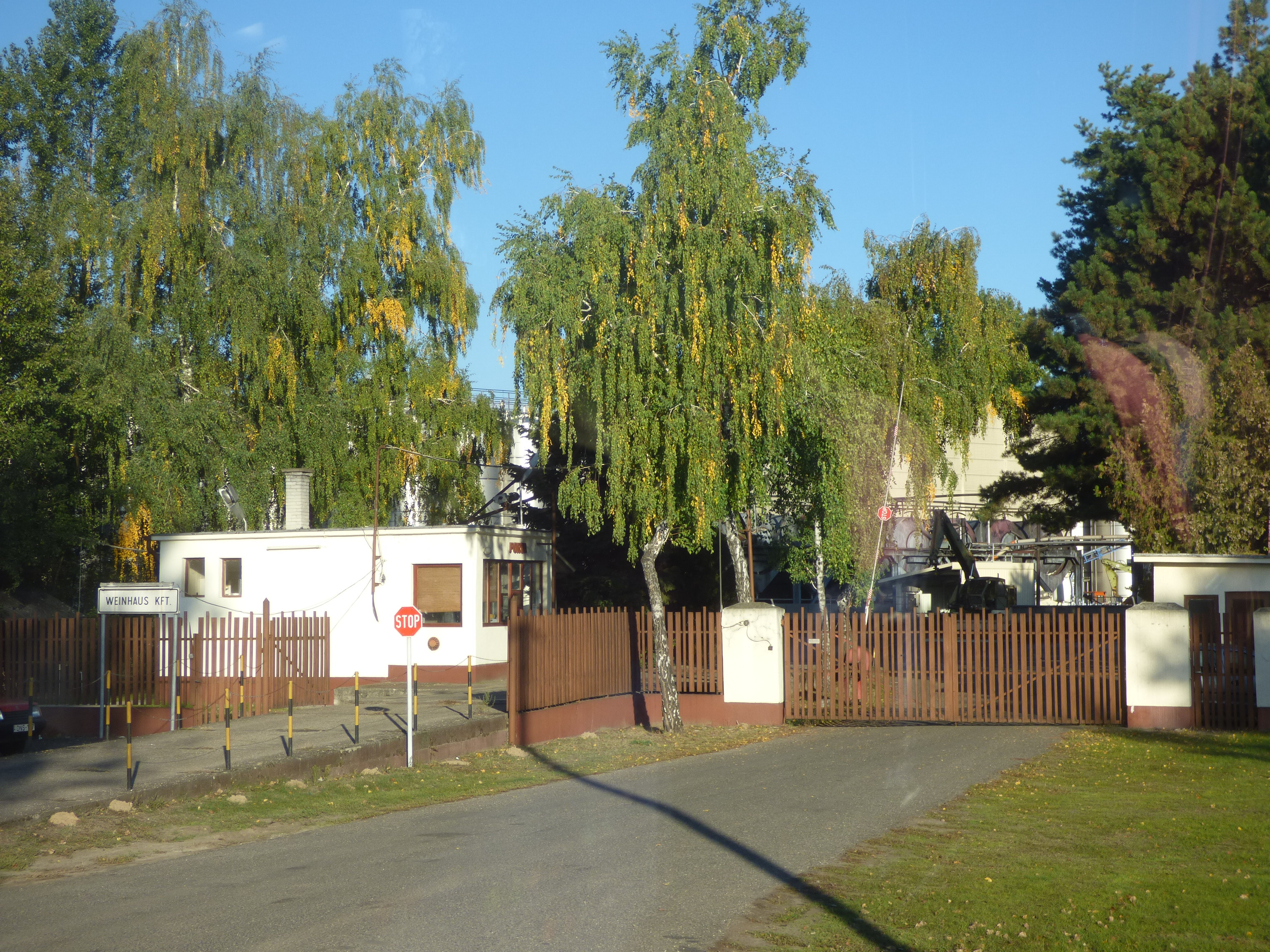 Bócsa, a Weinhaus Kft. telephelyének bejárata